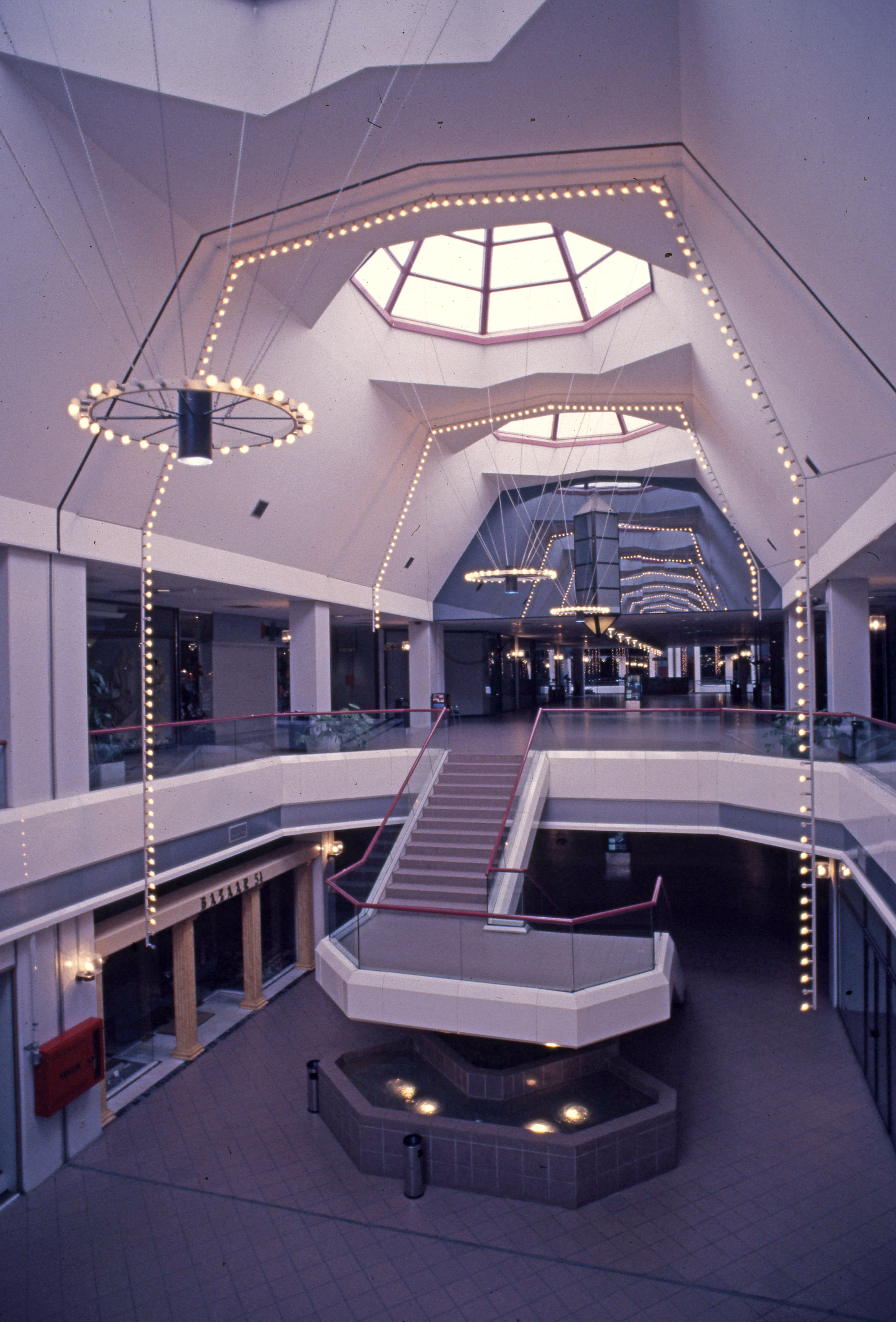 Hayati Tabanlıoğlu designed Galleria, the first modern shopping mall of Turkey between 1981-1986. The building, which opened in 1988 as part of the Ataköy Complex initiated by Turgut Özal, is now considered a subject of reference for the changes Turkey faced in those years. Galleria will soon be demolished because of a new project, planned to include residences, hotels and shopping malls, designed by Murat Tabanlıoğlu, Hayati Tabanlıoğlu’s son. SALT Research, Hayati Tabanlıoğlu Archive Hayati Tabanlıoğlu, Türkiye’nin ilk modern AVM’si olan Galleria’yı 1981-1986 yıllarında tasarladı. Turgut Özal’ın girişimiyle Ataköy Turizm Kompleksi projesi çerçevesinde 1988’de açılan yapı, Türkiye’nin o yıllarda yaşadığı değişimin önemli öznelerindendir. Galleria’nın, Hayati Tabanlıoğlu’nun oğlu Murat Tabanlıoğlu tarafından tasarlanan ve rezidans, otel ve alışveriş merkezlerinden oluşan yeni bir proje kapsamında yıkılması beklenmektedir. SALT Araştırma, Hayati Tabanlıoğlu Arşivi